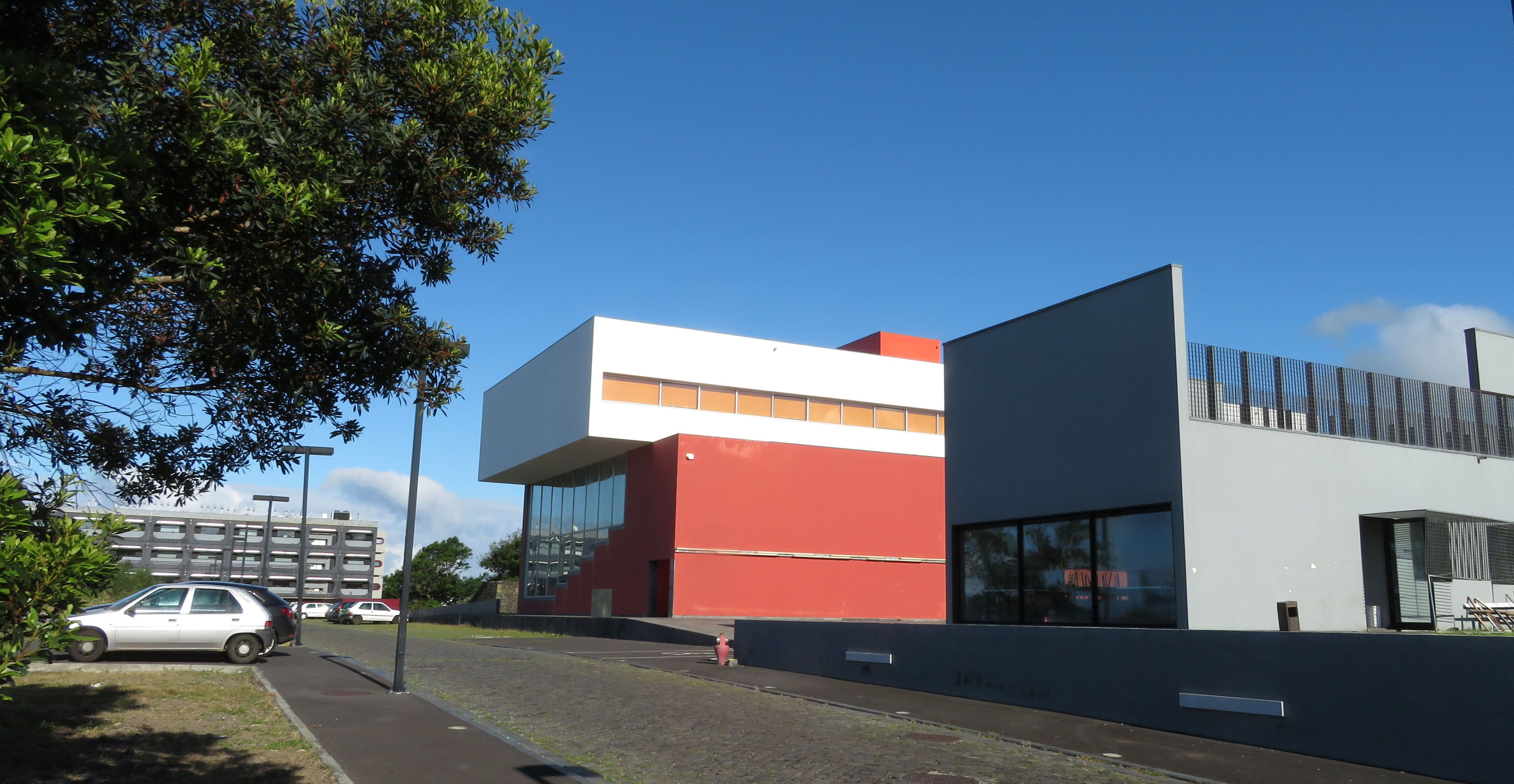 University of the Azores, Campus in Angra do Heroismo, Terceira, Portugal